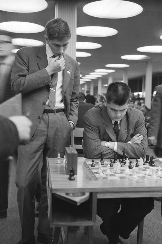 Germany Zentralbild/Kohls/Leske 29.10.1960 Leipzig: XIV. Schacholympiade 1960 Im Ringmessehaus in Leipzig wird vom 16.10. bis 9.11.1960 die XIV. Schacholympiade ausgetragen. Am 28.10. begannen die Finalturniere. UBZ Fischer (USA) beobachtet das Spiel von Lombardy (USA) gegen Radovici (Rumänien). 76 052/53N United States of America United States of America Central image / Kohls / Leske Nov. 1, 1960 w:14th Chess Olympiad, 1960 in Leipzig In the tournament in Leipzig took place between October 26(16?) and November 9, 1960. On Oct. 28, 1960 the final round began. Shown here: Fischer (USA) watches the game of Lombardy (USA) v Radovici (Romania).